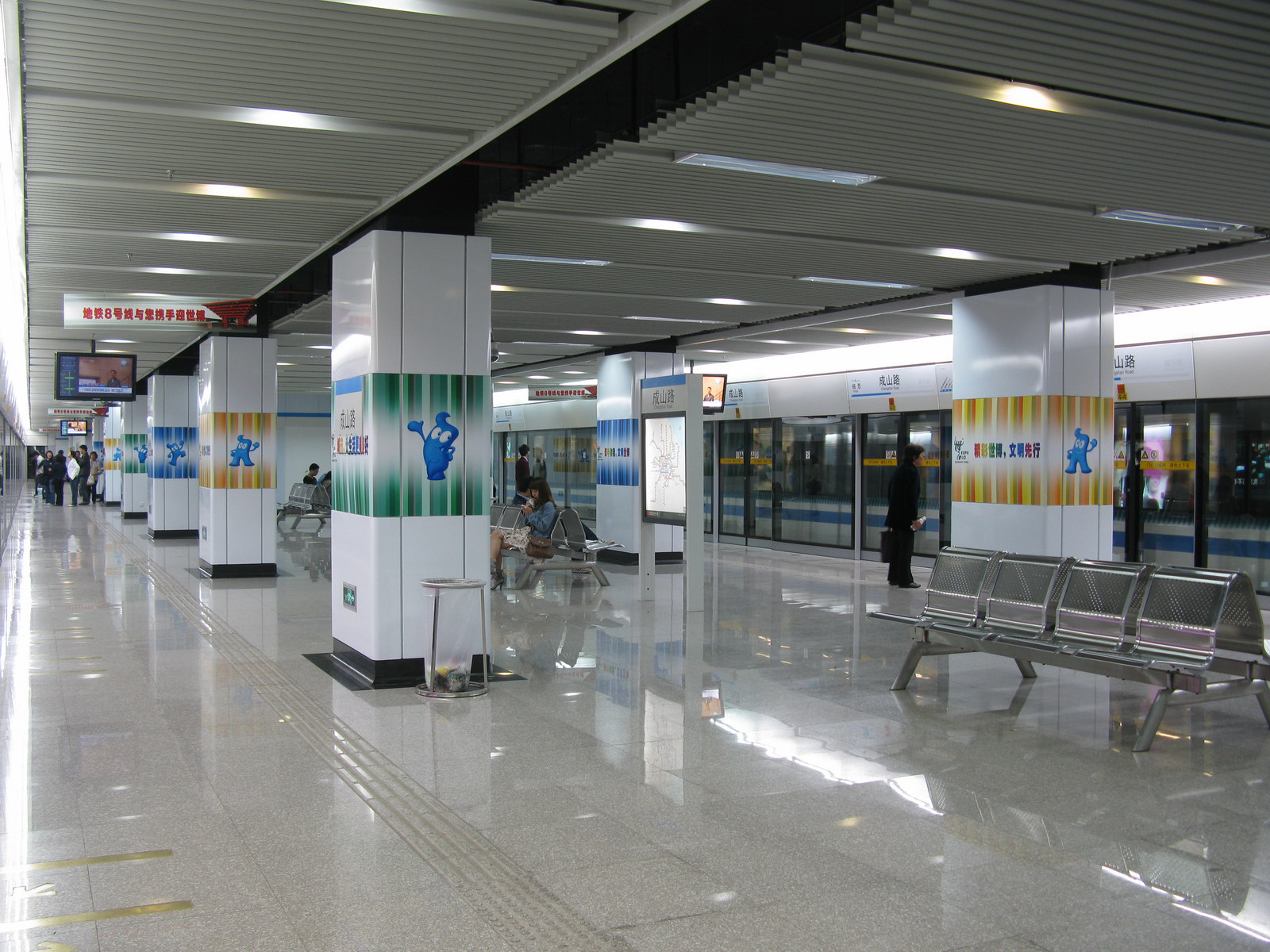 Line 8 Platform of Chengshan Road Station, Shanghai Metro